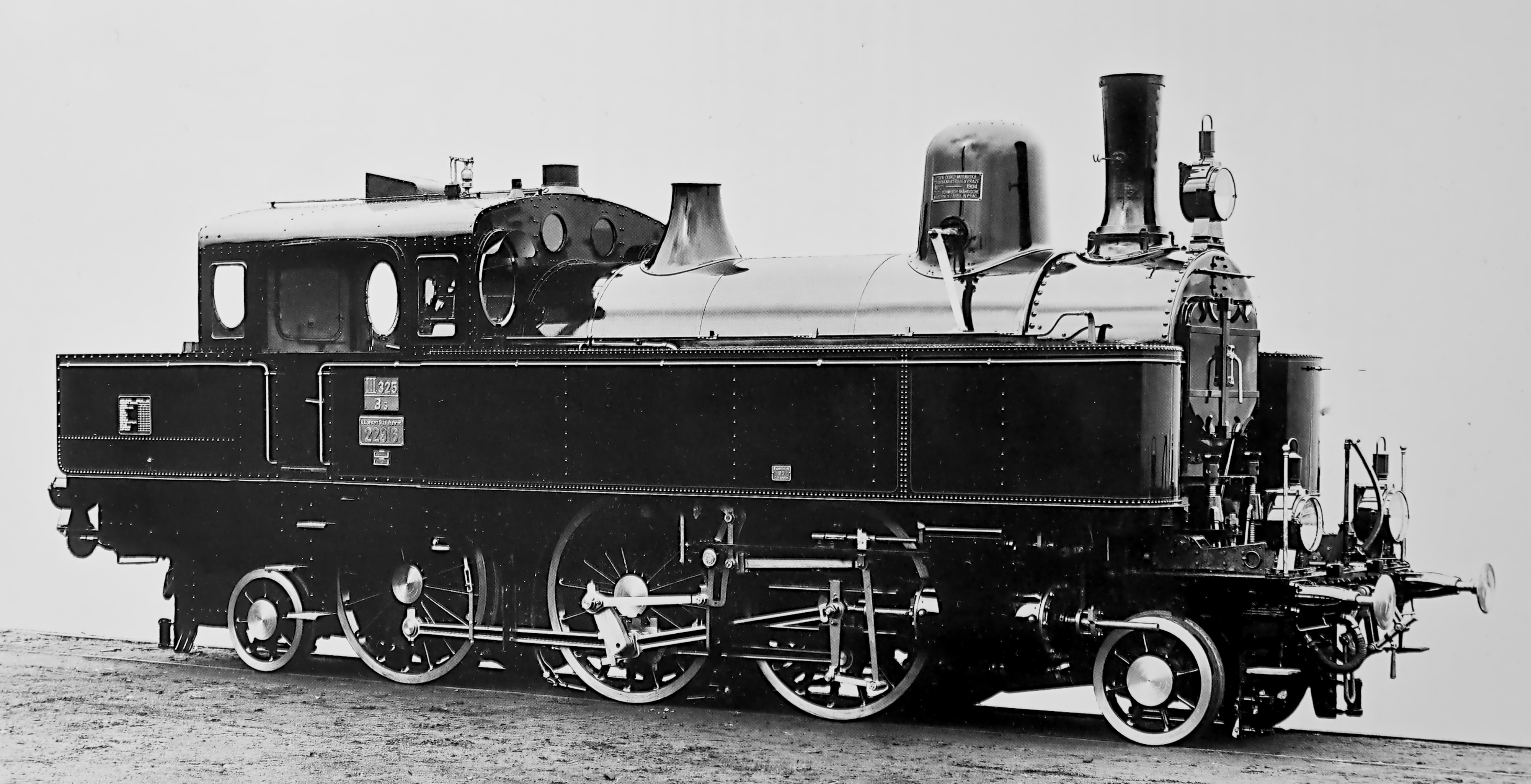 kkStB 229 16, works photograph of the First Bohemian-Moravian machine factory